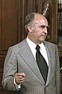 José López Portillo, President of Mexico, during a visit of US president Jimmy Carter to Mexico. February 14, 1979.